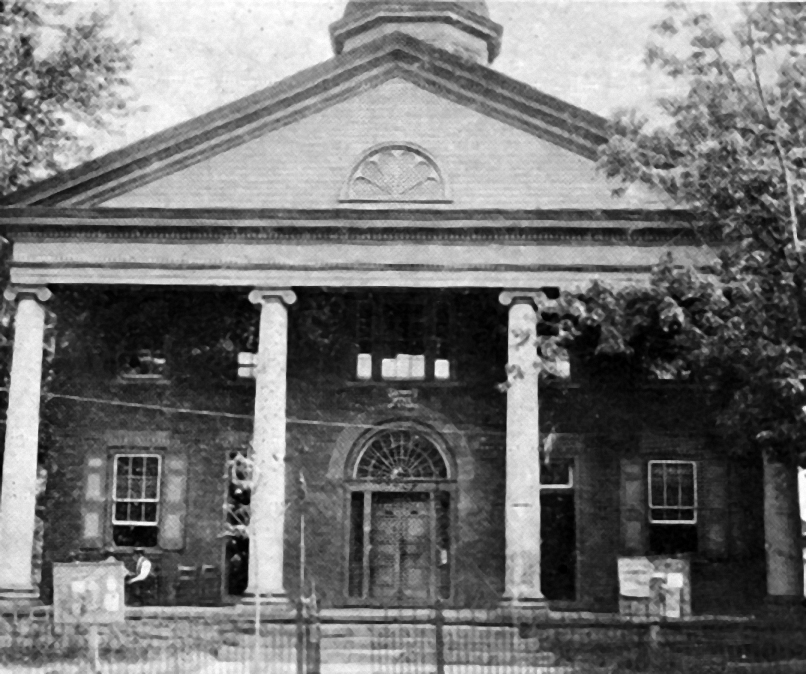 Hampshire County Courthouse (1833) was a 19th century brick edifice located at the corner of Main (U.S. Route 50) and High (West Virginia Route 28) Streets in Romney in the U.S. state of West Virginia. The 1833 courthouse was demolished following a fire during renovations in 1920. The current courthouse was built on the same site in 1921.